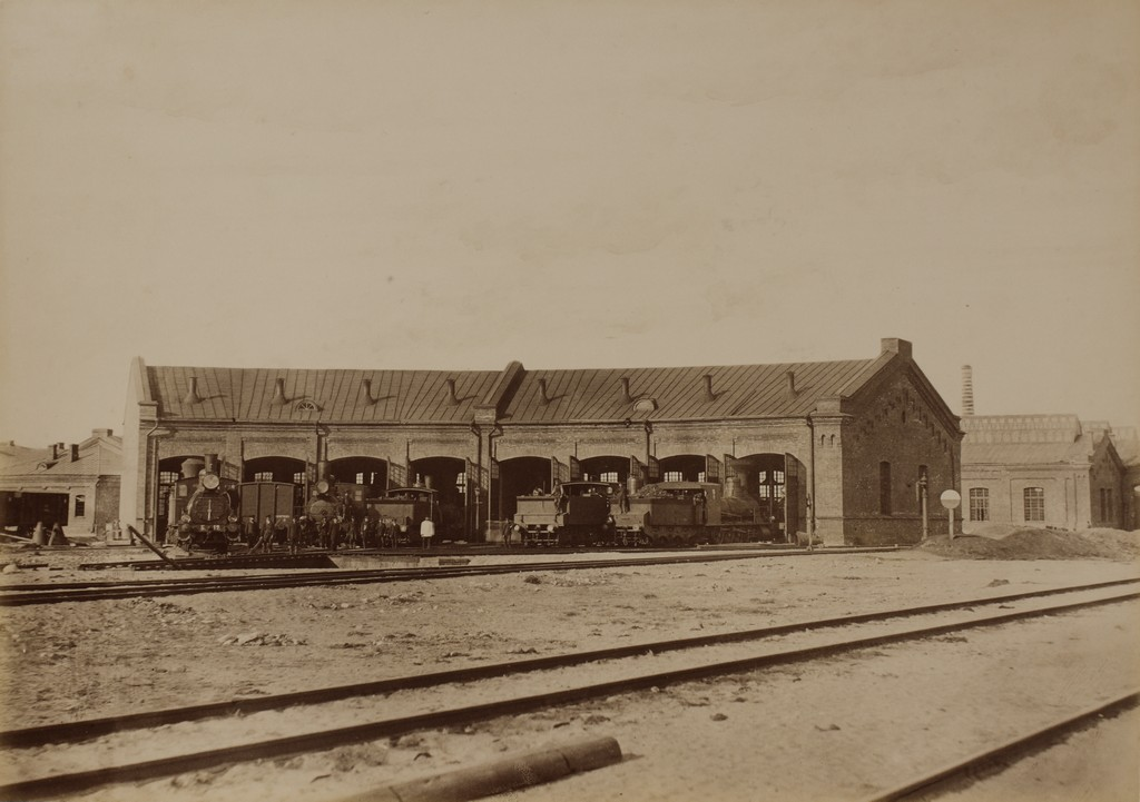 Main depot of the Pskov-Riga Railway in Valga